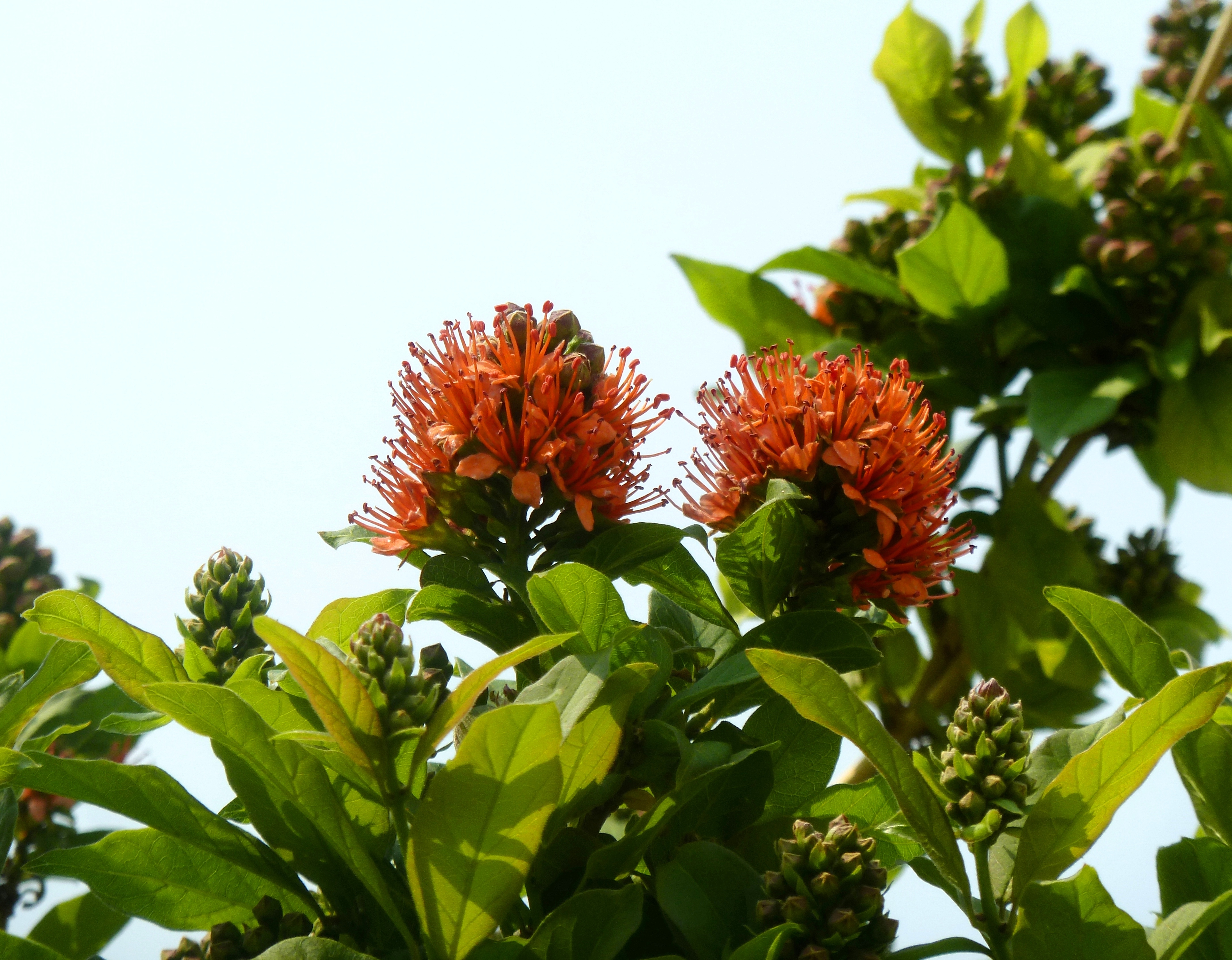 Inflorescences of a Hiccough creeper in the Manie van der Schijff Botanical Garden, Pretoria